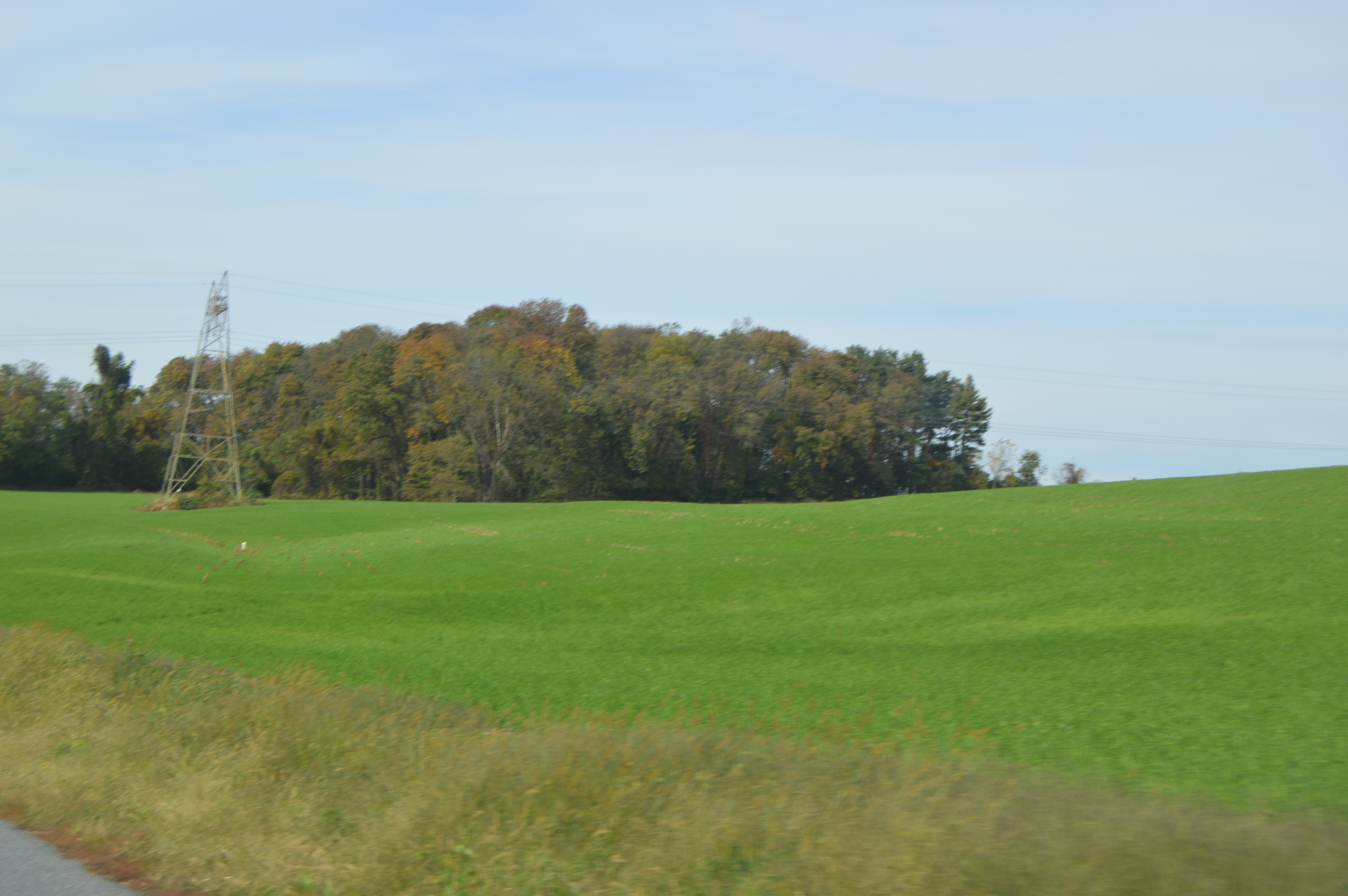 Overview of fields at the Murry Site, looking north from Anchor Road south of Washington Boro in Manor Township, Lancaster County, Pennsylvania, United States. Once a village of the Shenks Ferry culture, it is now a significant archaeological site, and it has been listed on the National Register of Historic Places.